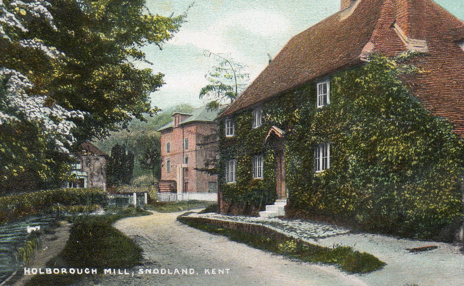 Holborough Mill, Snodland. Postcard datestamped 13 January 1908